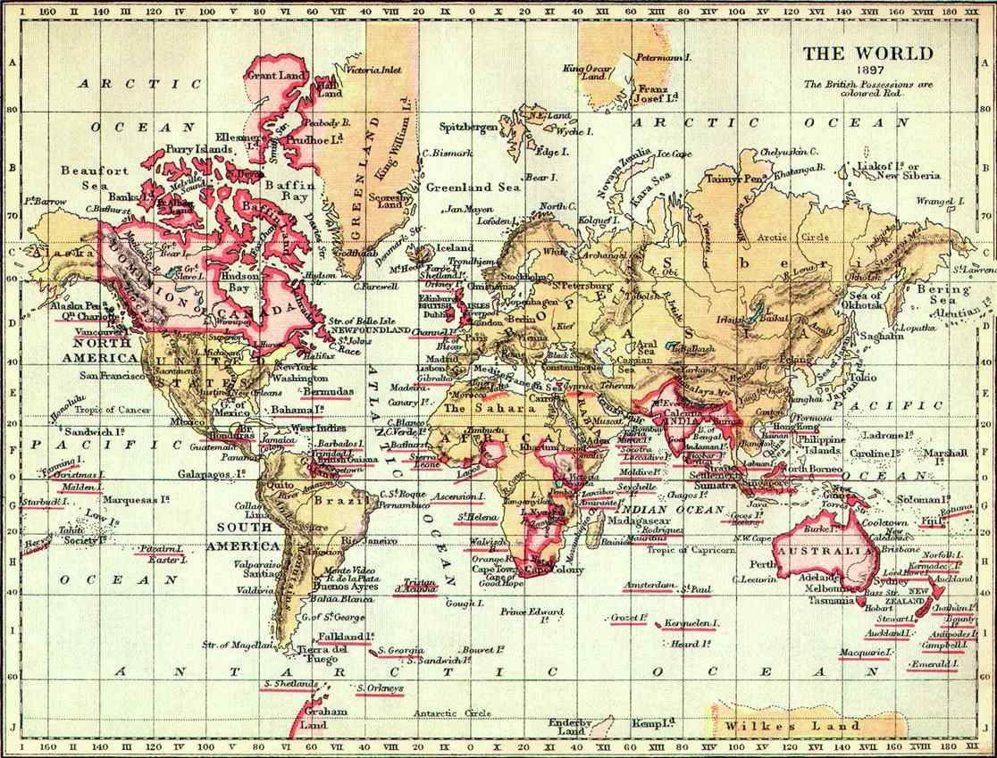 The World in 1897. "The British Possessions are coloured Red"